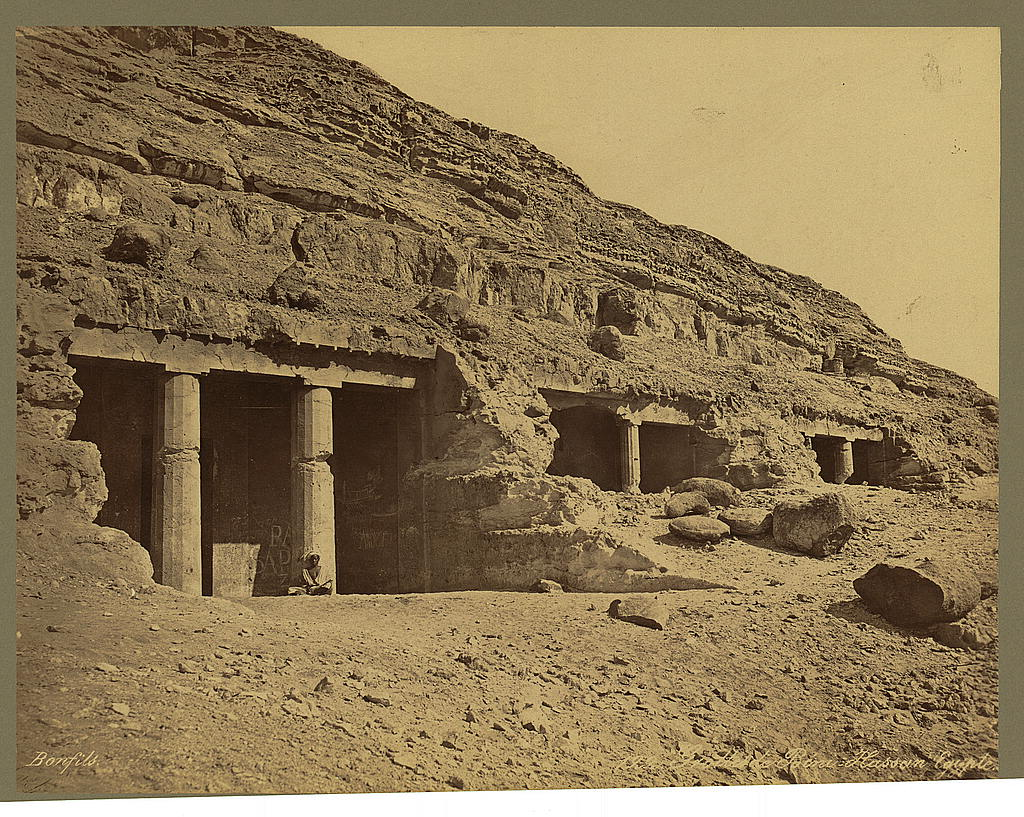 Title: Grotte de Béni-Hassan (Égypte) / Bonfils. Abstract/medium: 1 photographic print : albumen.